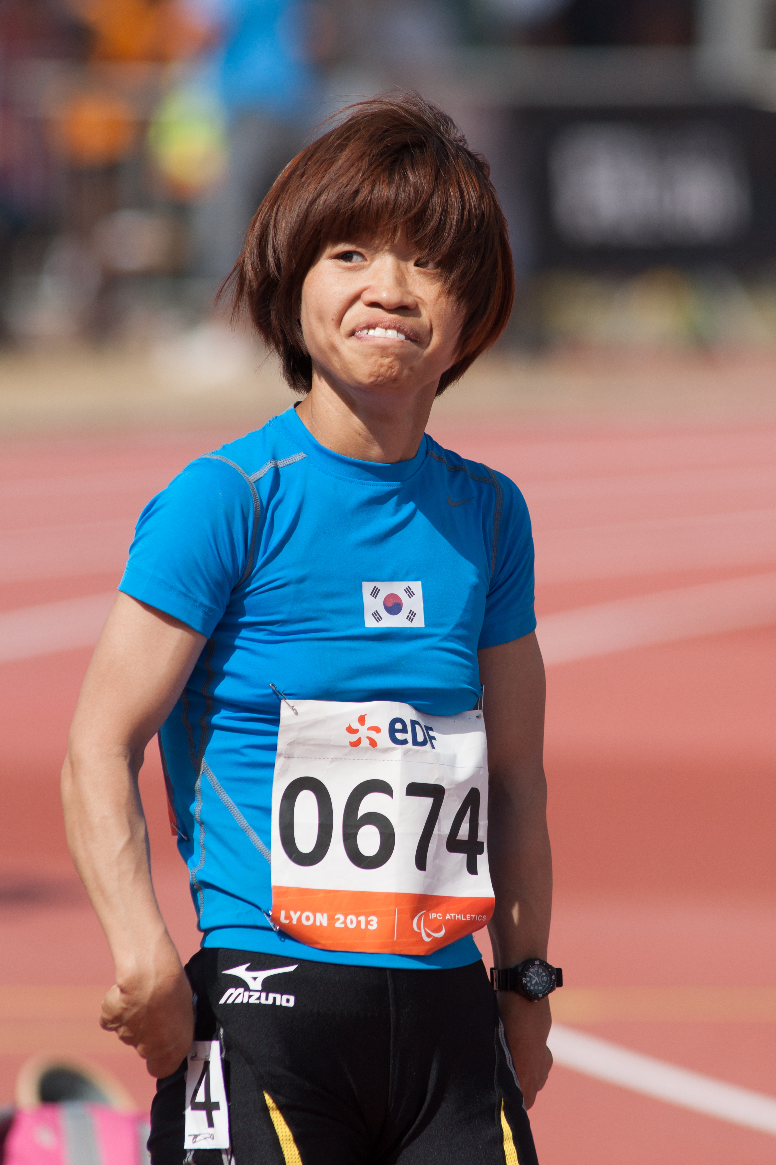 South Korea's Jeon Min-Jae at the 2013 IPC Athletics World Championships in Lyon before the women's 100 metres sprint (T36).